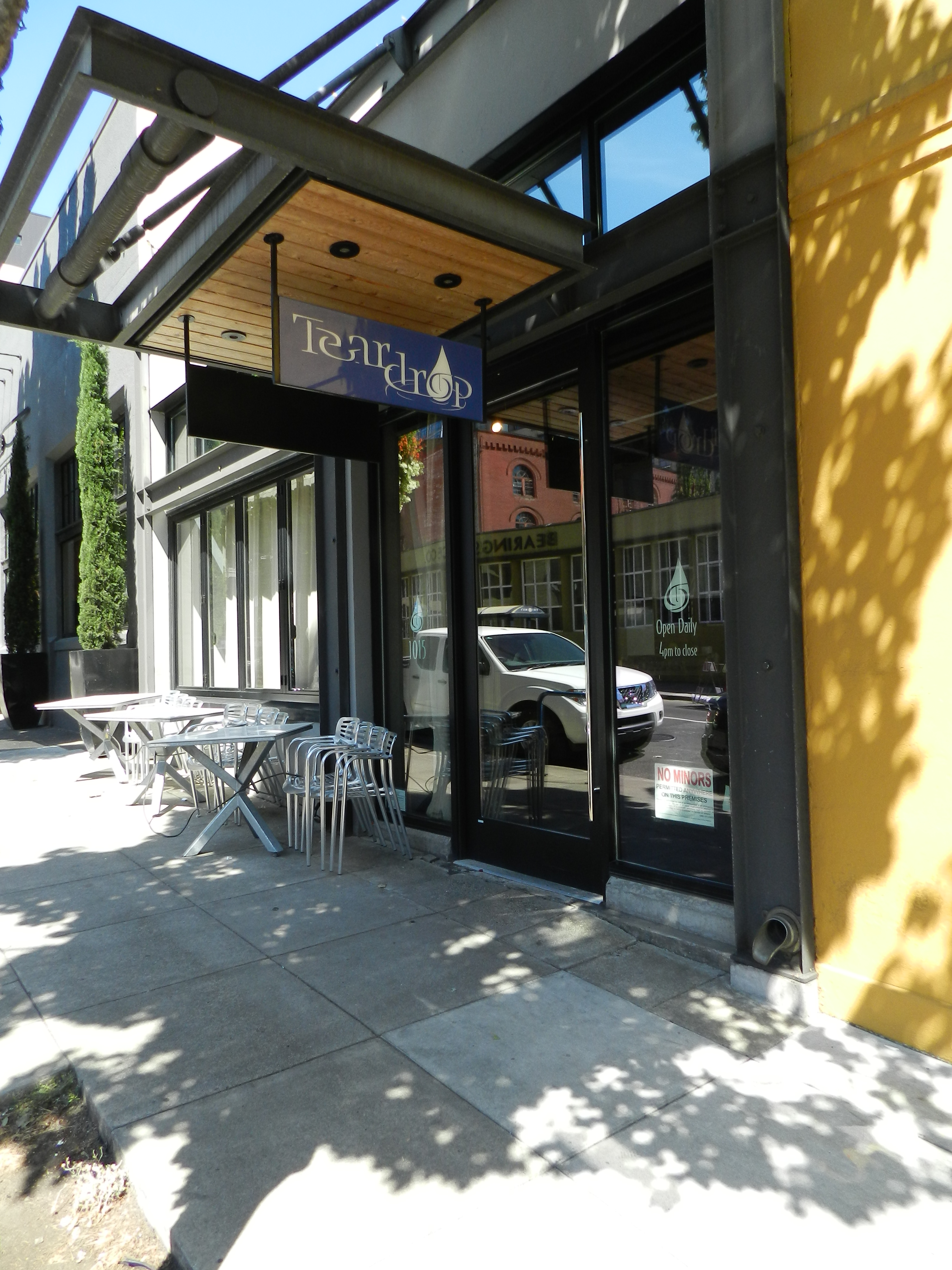 Photograph of the Teardrop Lounge in Portland, Oregon.